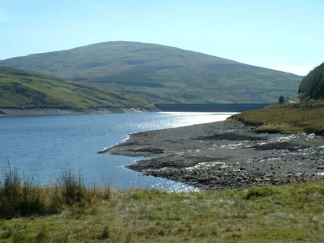 Nant Y Moch Dam.